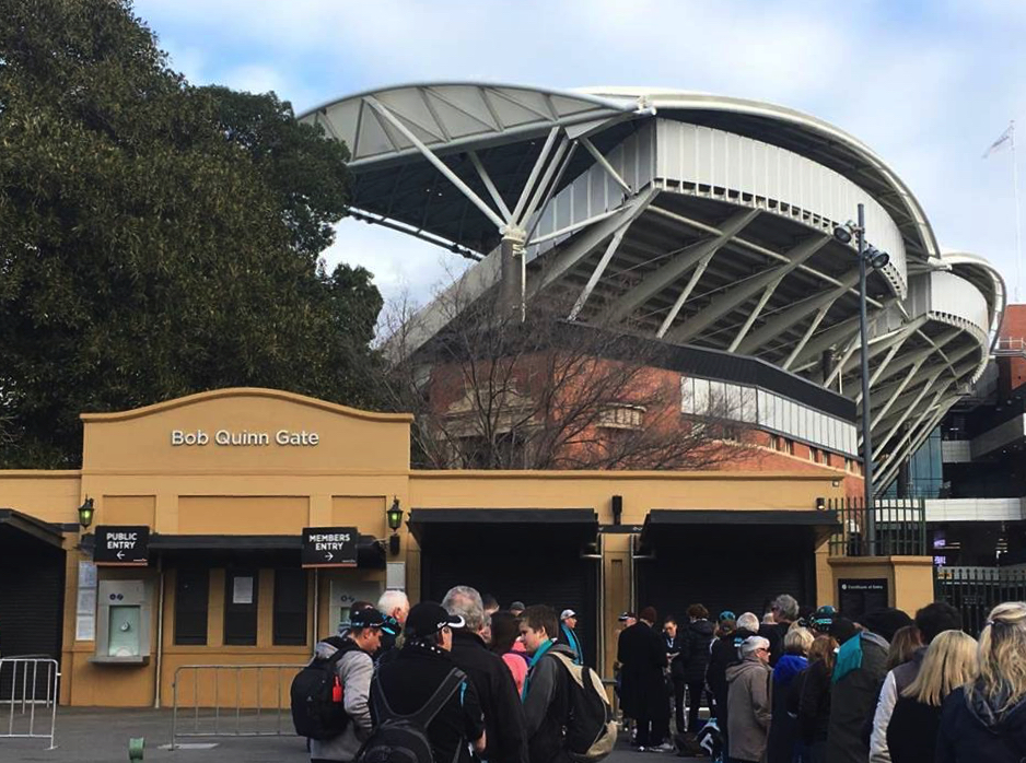 Bob Quinn gates at Adelaide Oval before the 2017 AFL season round 22 fixture between Port Adelaide and Gold Coast.